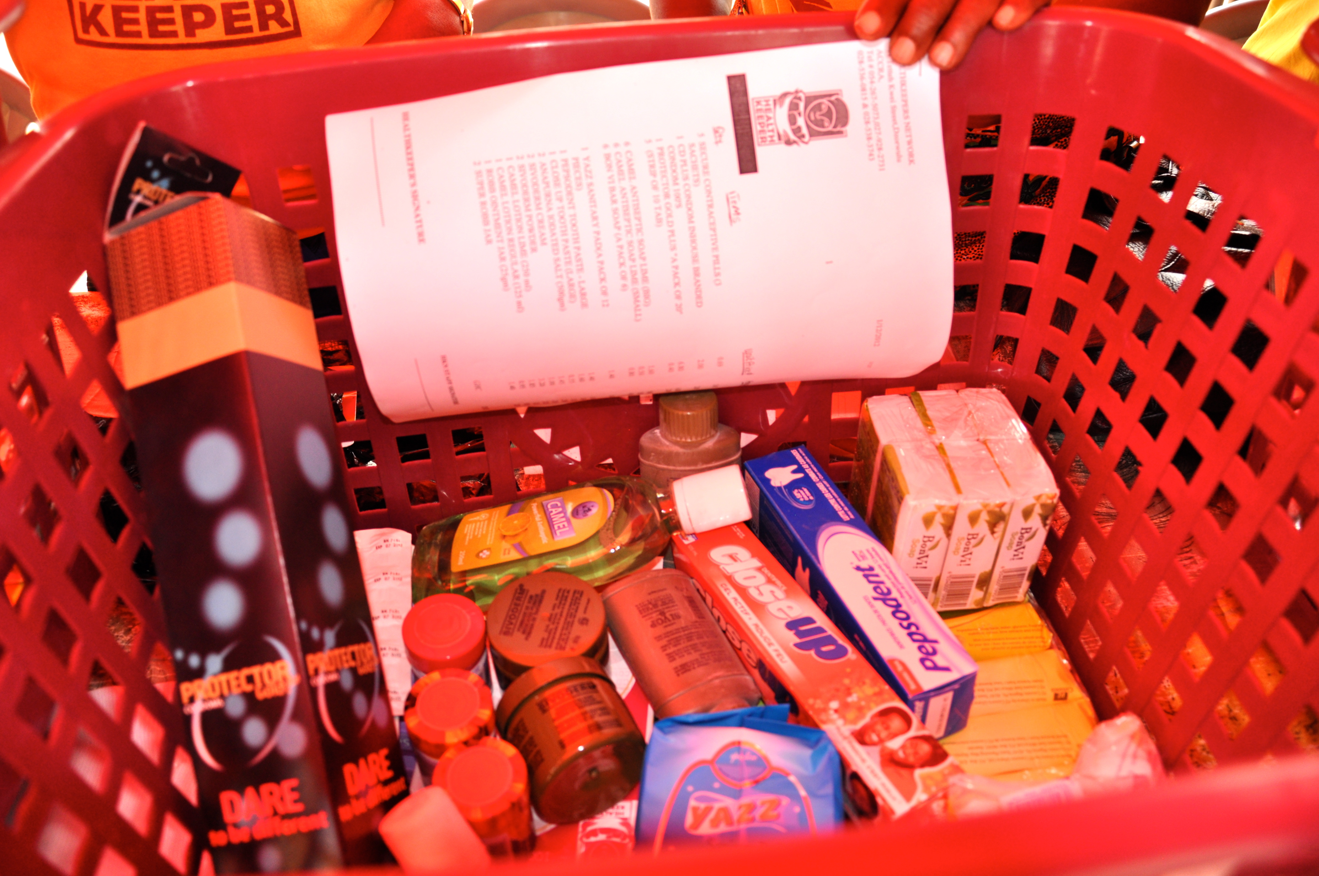 (USAID/Kasia McCormick) 2012